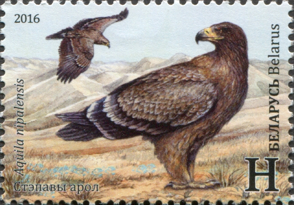 Joint issue of Belarus and Azerbaijan. Rare birds. Eagles. Steppe eagle.